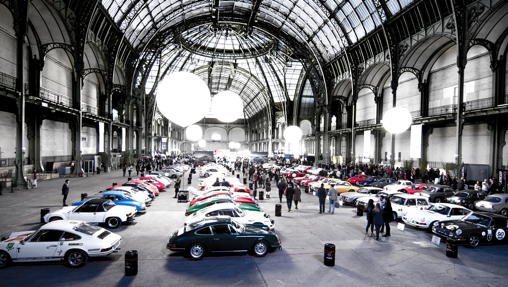 Grand Palais. Tour Auto by Airstar. Paris 2016.